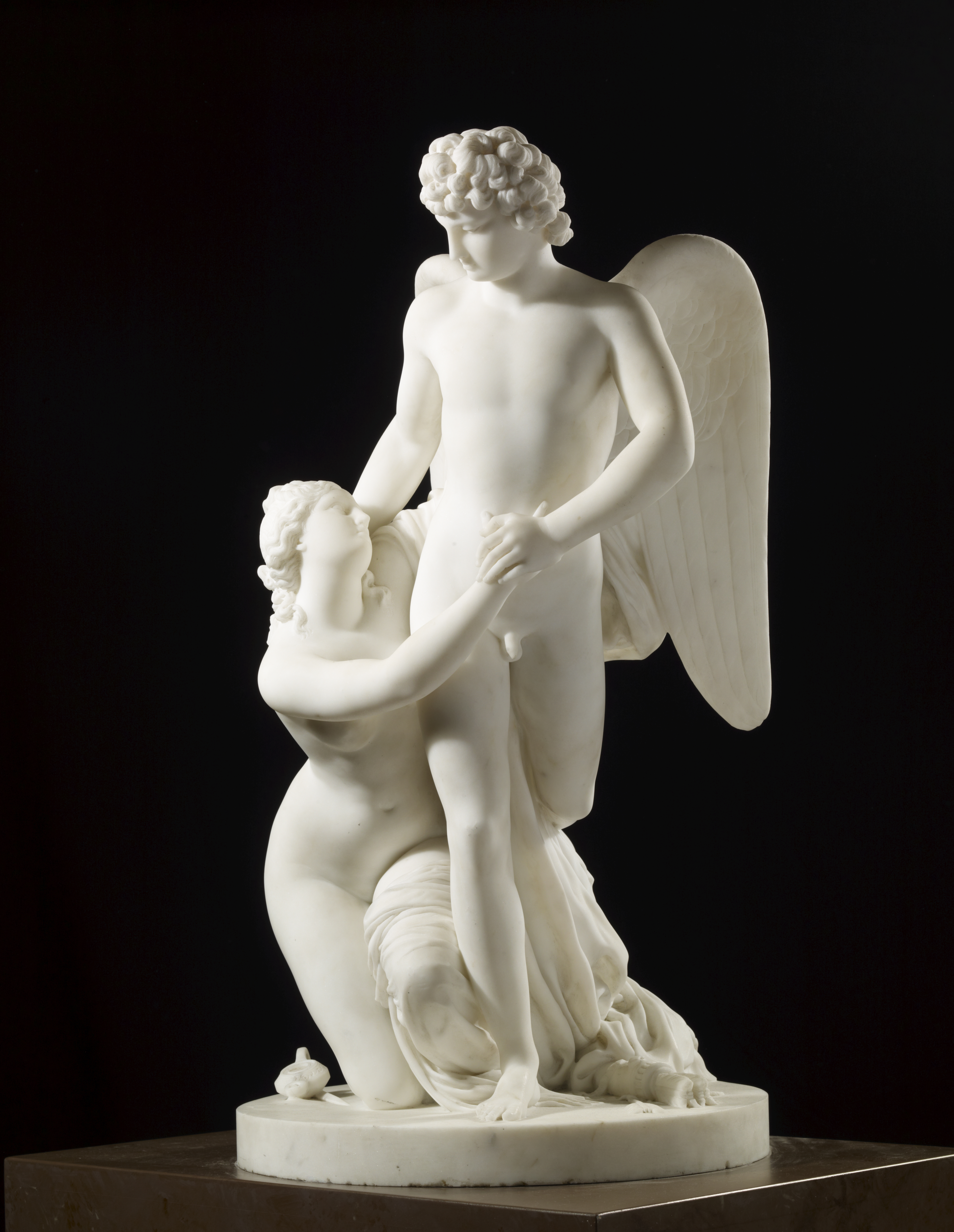 artist / taiteilija / konstnär: Johan Tobias Sergel (1740–1814) title / teosnimi / titel: Cupid and Psyche / Amor ja Psykhe / Amor och Psyche date / ajoitus / datering: 1789 techinique / tekniikka / teknik: marble/ marmori / marmor measurements / mått / mitat: 76 cm Sinebrychoff Art Museum / Sinebrychoffin taidemuseo / Konstmuseet Sinebrychoff inv. no. B I 372 photo / kuva / foto: Finnish National Gallery / Kansallisgalleria / Finlands Nationalgalleri / Hannu Pakarinen & Henri Tuomi